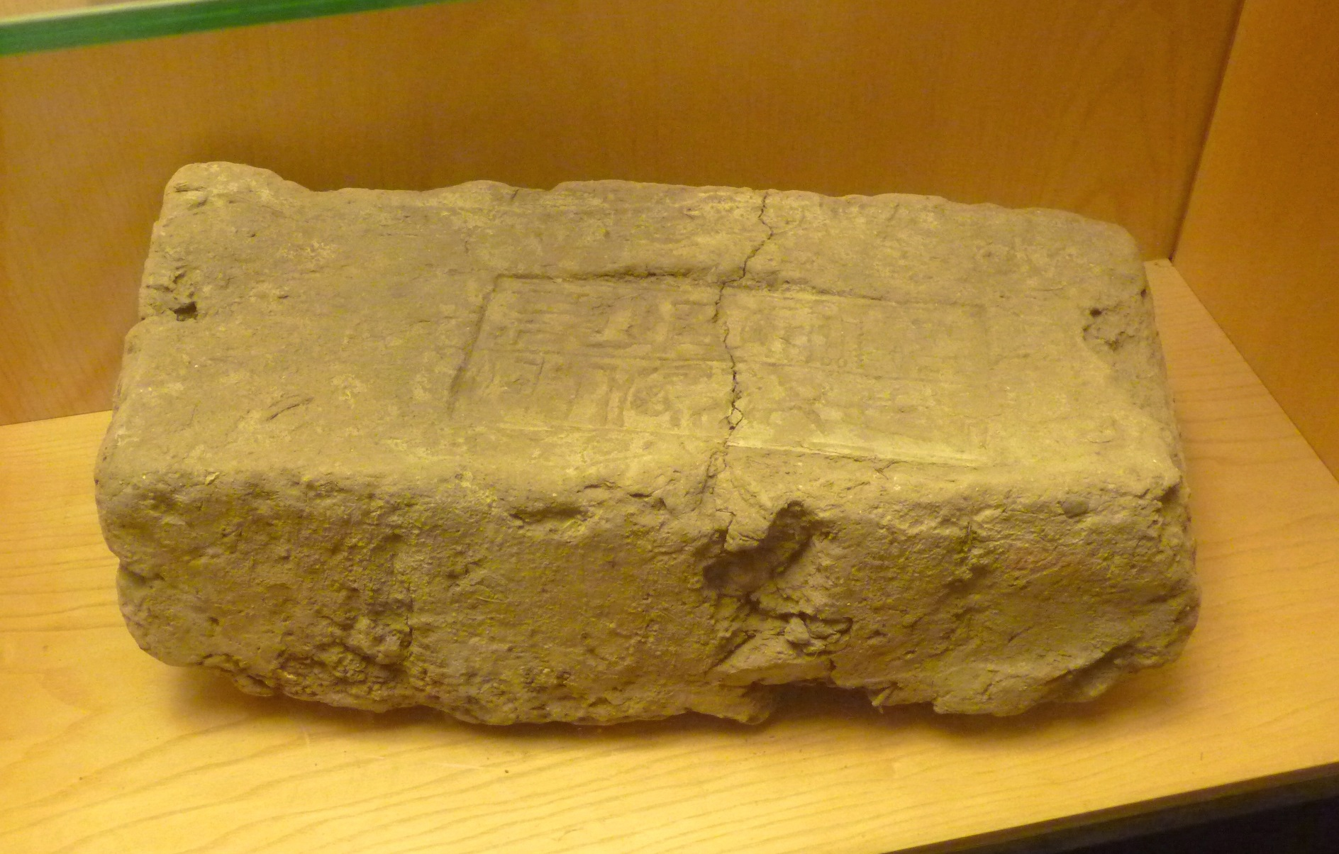 Brick bearing the name of Paser, vizier under Sethi I and Ramesses II. From Paser's theban tomb, 19th dynasty, New Kingdom. Florence, Museo archeologico nazionale, n. 2641.